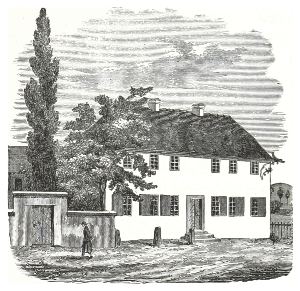 Image extracted from page 475 of Dans la Forêt de Thuringe. Voyage d'étude (1862) by Édouard Humbert. Original held and digitised by the British Library. Copied from Flickr. Note: The colours, contrast and appearance of these illustrations are unlikely to be true to life. They are derived from scanned images that have been enhanced for machine interpretation and have been altered from their originals.